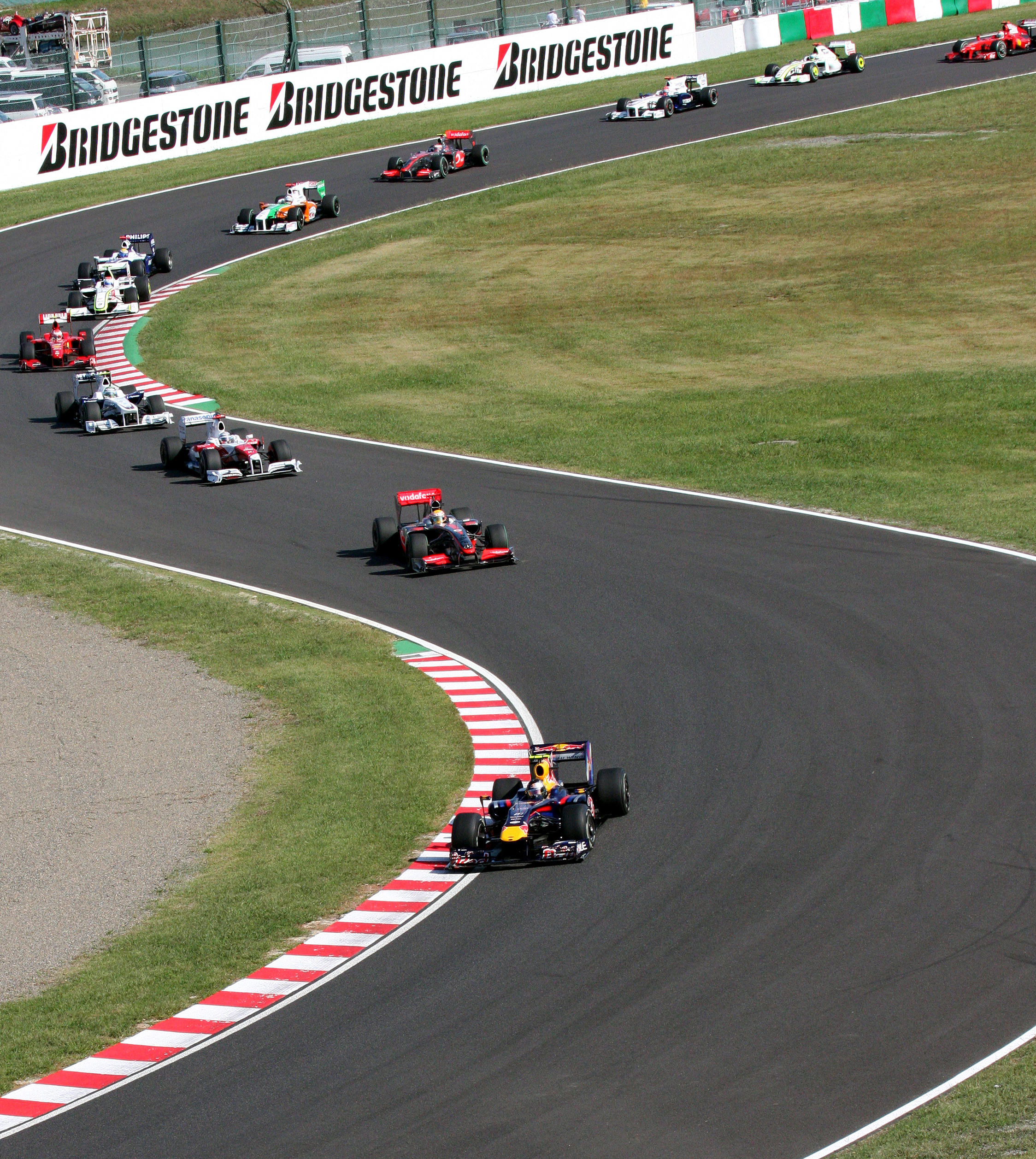 Formula One 2009 Rd.15 Japanese GP opening lap at the 'S' of the circuit.